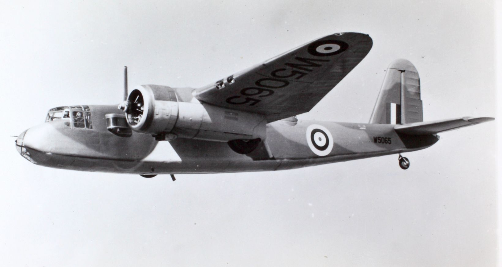 Image from the Charles Daniels Photo Collection album "British Aircraft." SOURCE INSTITUTION: San Diego Air and Space Museum Archive